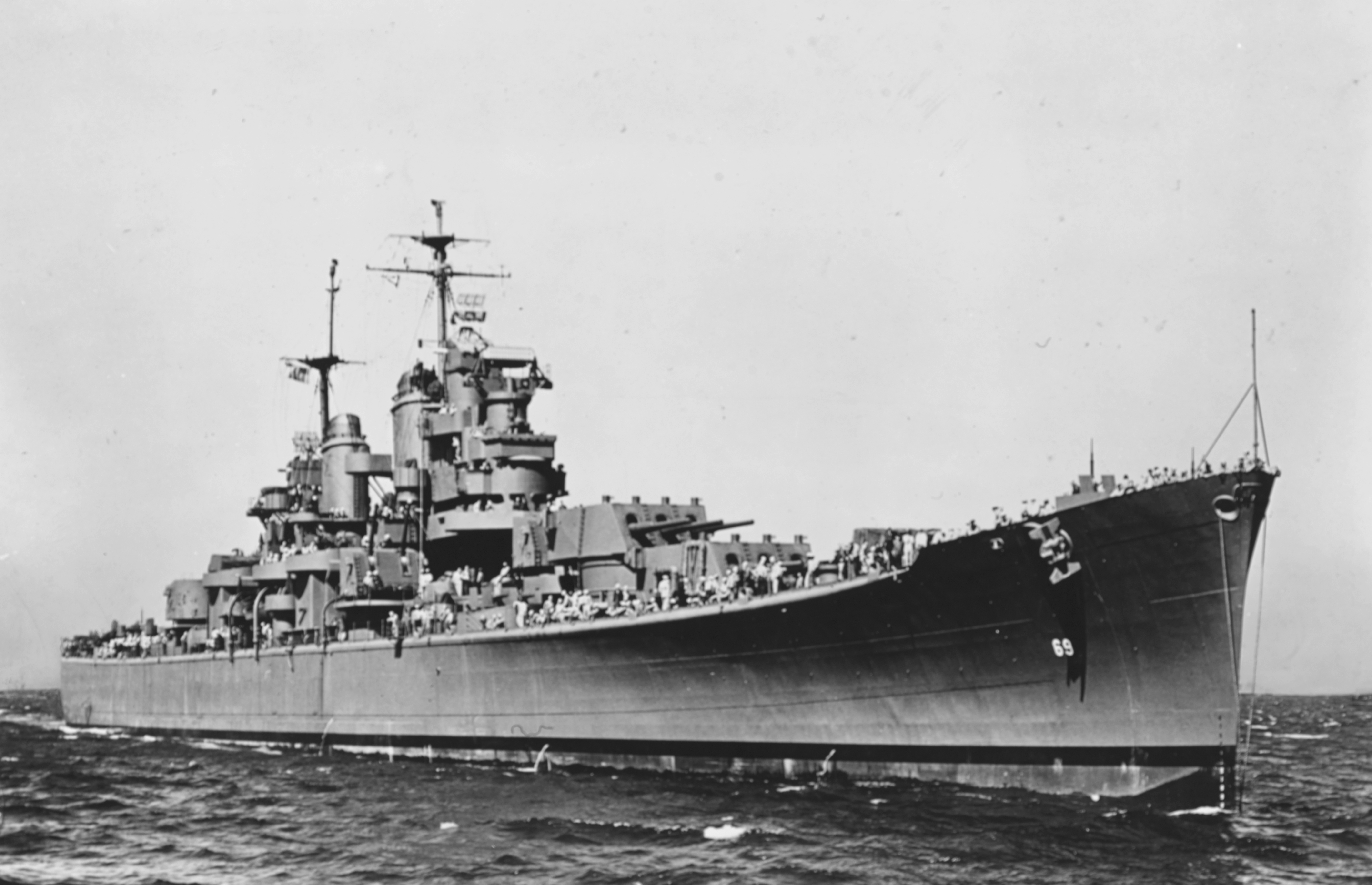 The U.S. Navy heavy cruiser USS Boston (CA-69) underway in Boston Harbor, Massachusetts (USA), on 30 June 1943.